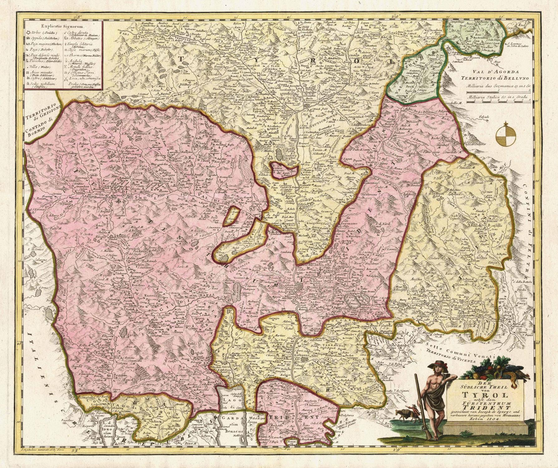 Map from 1804 showing the southern section of Tyrol with the newly-created Principality of Trent ("Fürstentum Trident", in purple). The Prince-Bishopric of Trent had been secularized in 1803 and erected into a secular principality. It was owned by Austria, then Bavaria and finally Austria again. Based on a 1762 map by Joseph von Sperges. Printed by Homann Heirs (Homann Erben).